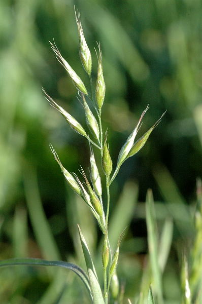 Picture taken in Commanster, Belgian High Ardennes . Species: Bromus hordeaceus